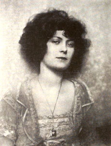 Actress Marjorie Seaman (1900–1923) and the wife of actor Ralph Graves. "Graves met her during the filming of Dream Street (1921), in which he was the hero and she had a minor role. They were married in Minneapolis, Minnesota, where the bride-to-be was "on location" with a film company. Mr. Graves, on his way west to appear in Kindred of the Dust (1922), stopped off long enough for the knot to be tied. Miss Seaman finished her picture and then joined her husband in Hollywood. The marriage was to be kept a deep, dark secret, but somebody told!" Page 78 of the December 1921 Photoplay (film dates added). Seaman has one film credit on the IMDB, Free Air (1922). She died on March 9, 1923, at the age of 22.